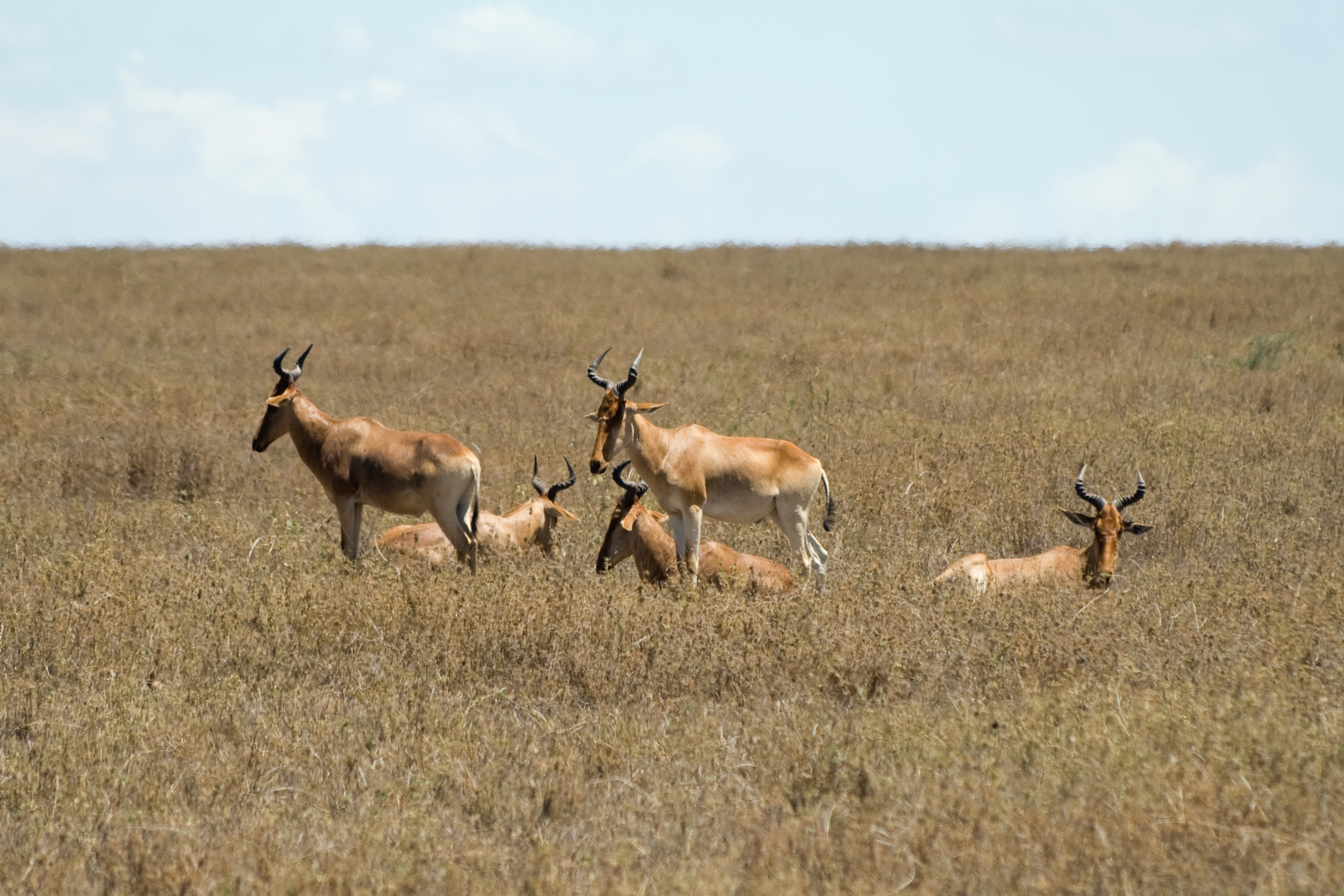 Hartebeests in Serengeti